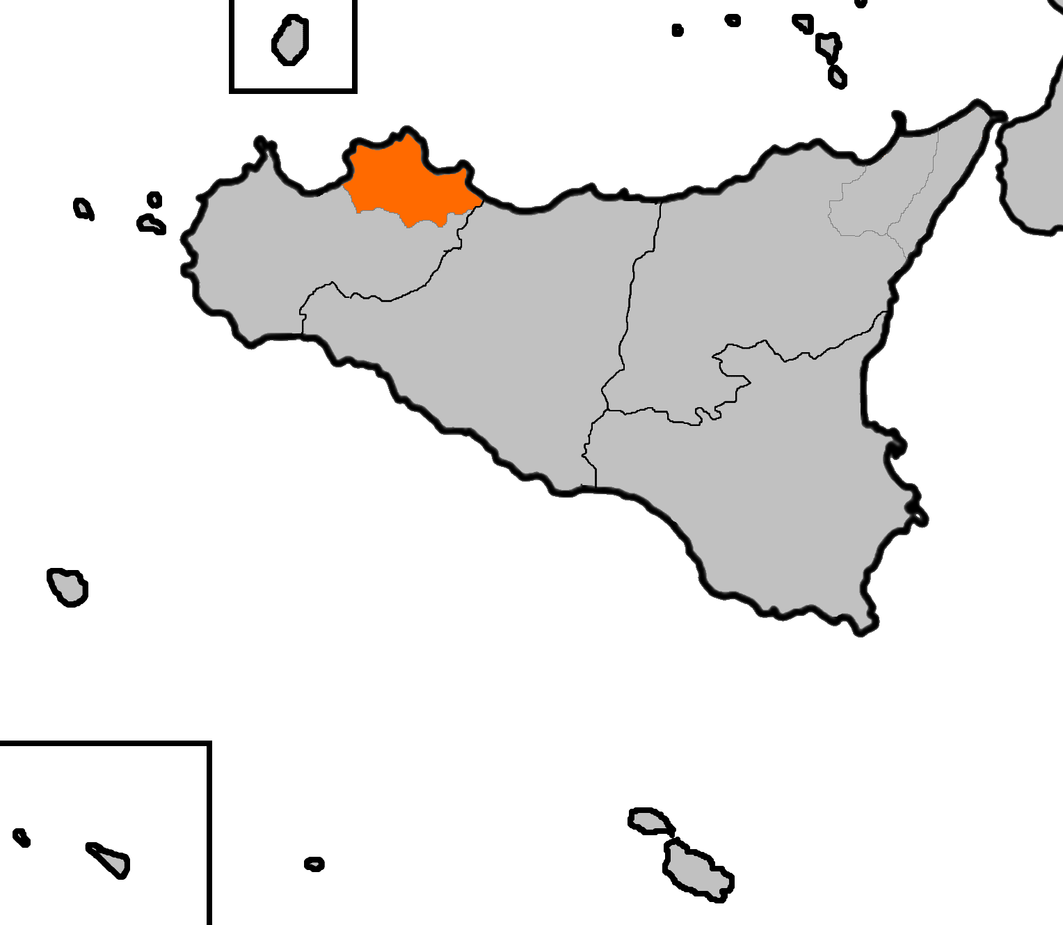 Localisation map of the Giustizierato di Palermo after the year 1282.